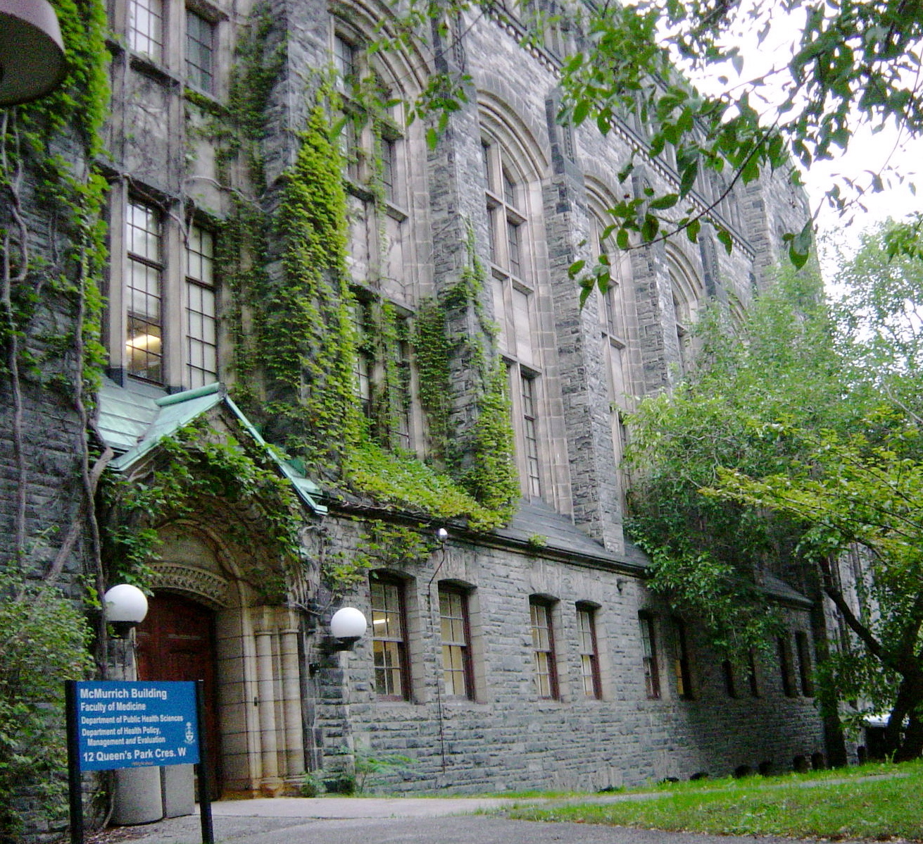 The eastern view of the McMurrich buildling, part of the Faculty of Medicine at the University of Toronto, Toronto, Ontario, Canada.